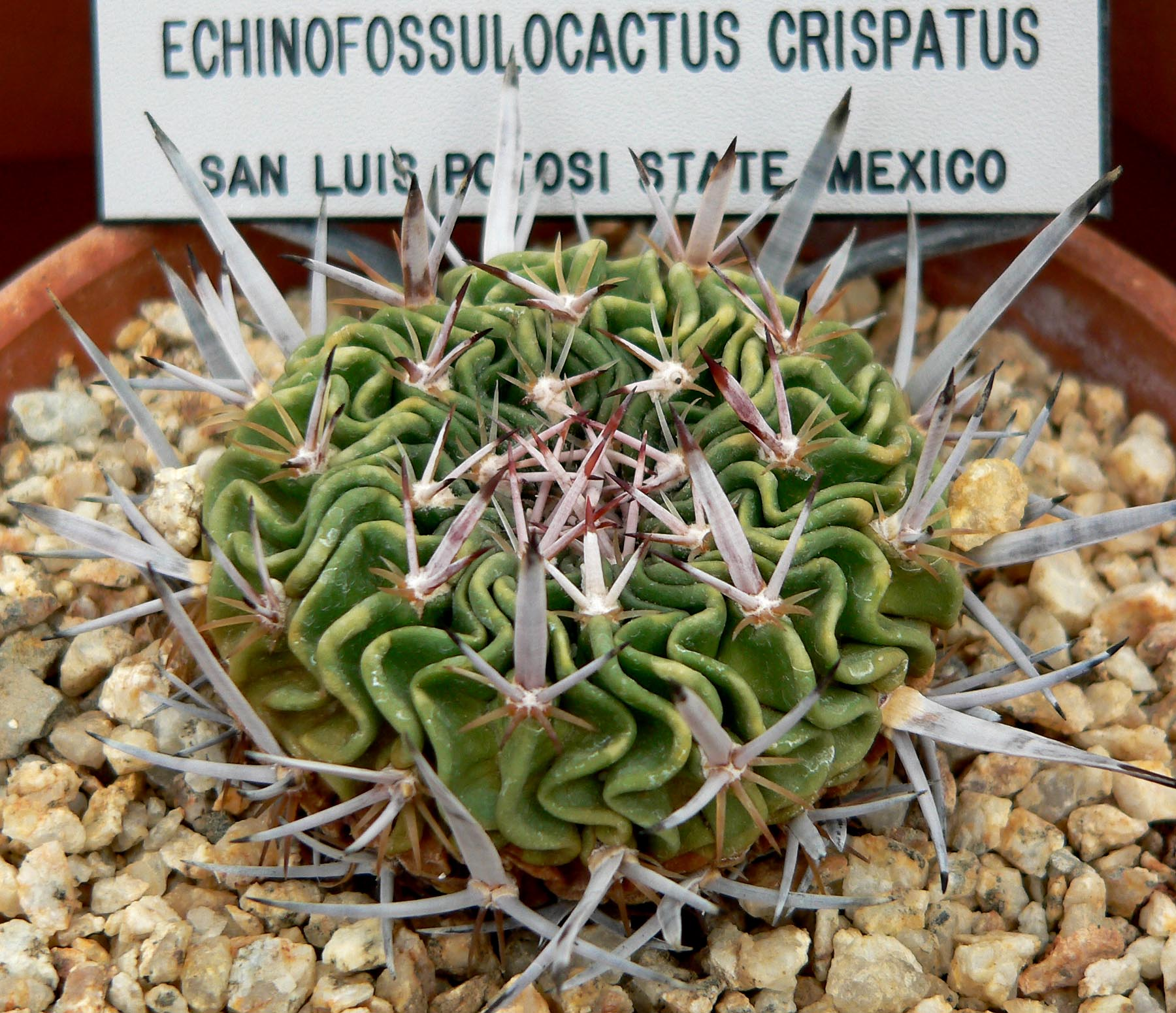 Photo of Echinofossulocactus crispatus at the University of California Botanical Garden